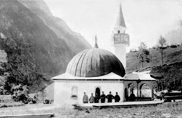 The first mosque in Slovenia, built probably in autumn 1916, pulled down after World War 1.